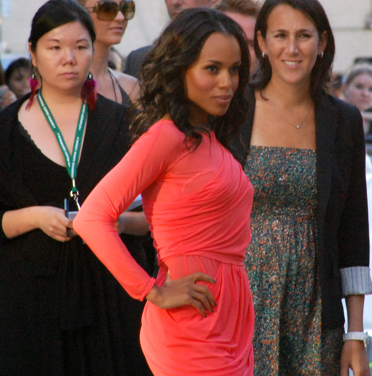 Mother and Child premiere - Roy Thompson Hall - September 14, 2009